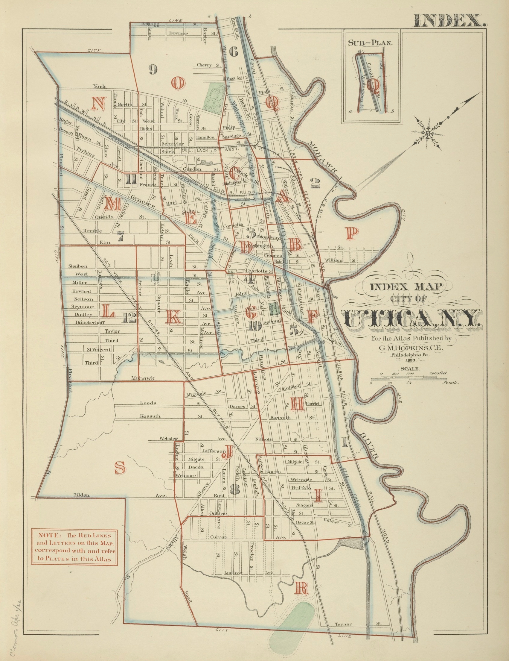 From The New York Public Library, this image depicts an 1883 map of Utica, New York.